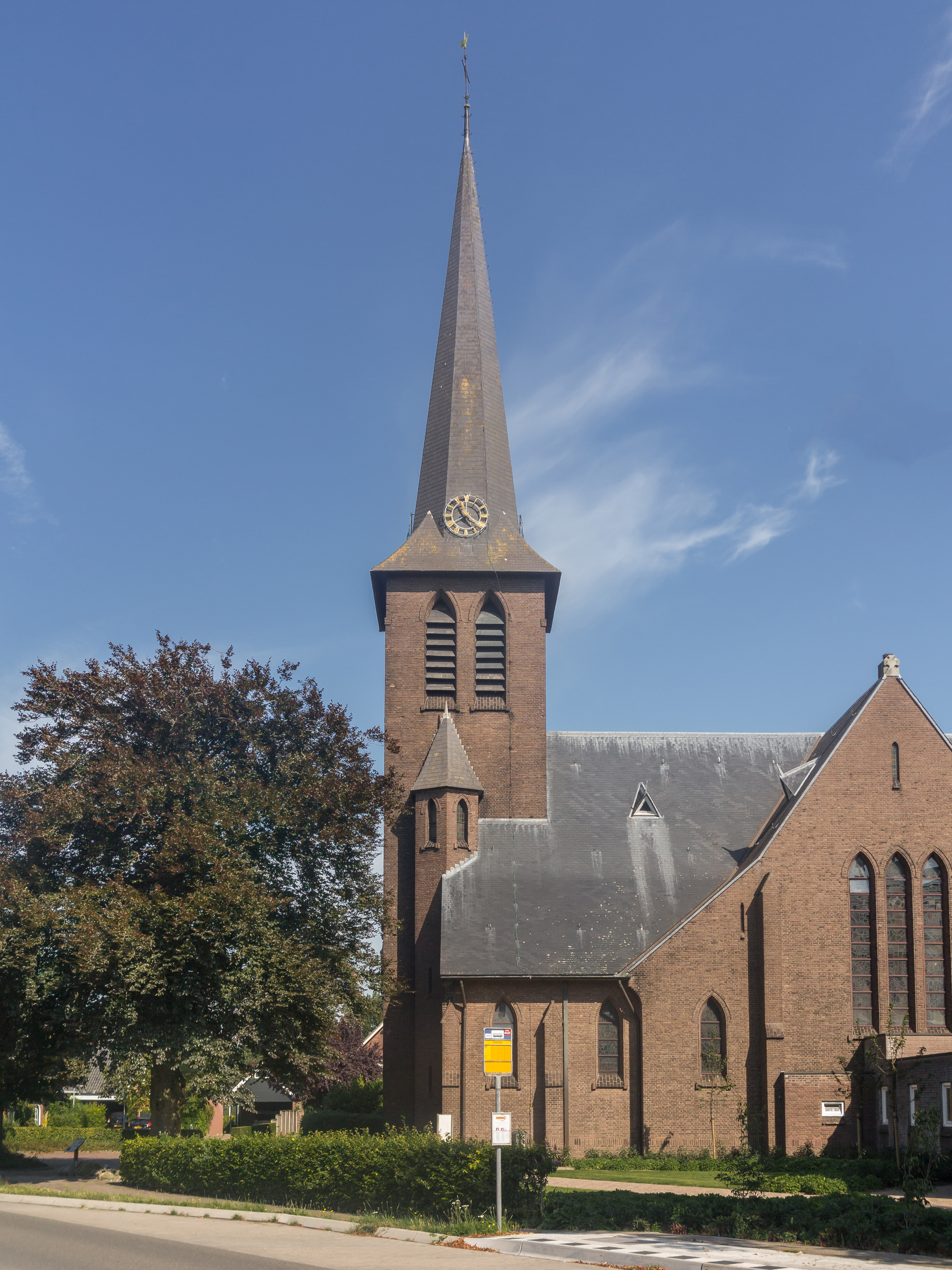 Sint Isodorushoeve, church: de Sint Isodoruskerk